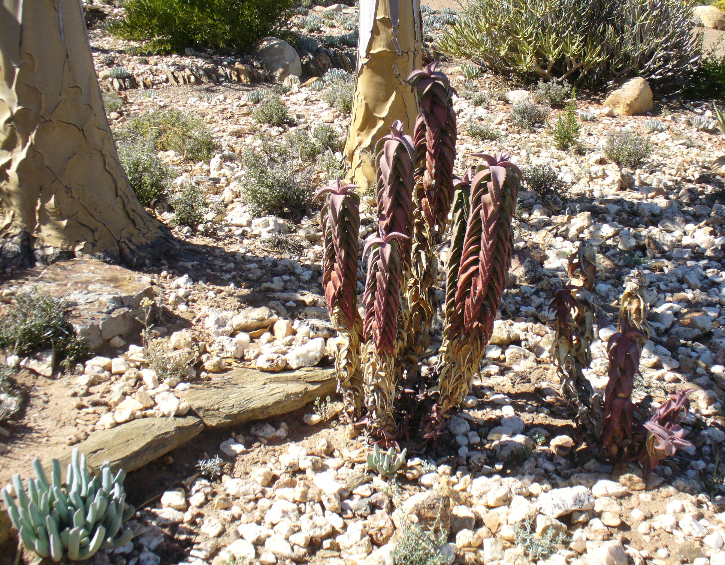 Worcester Botanical Gardens Cape